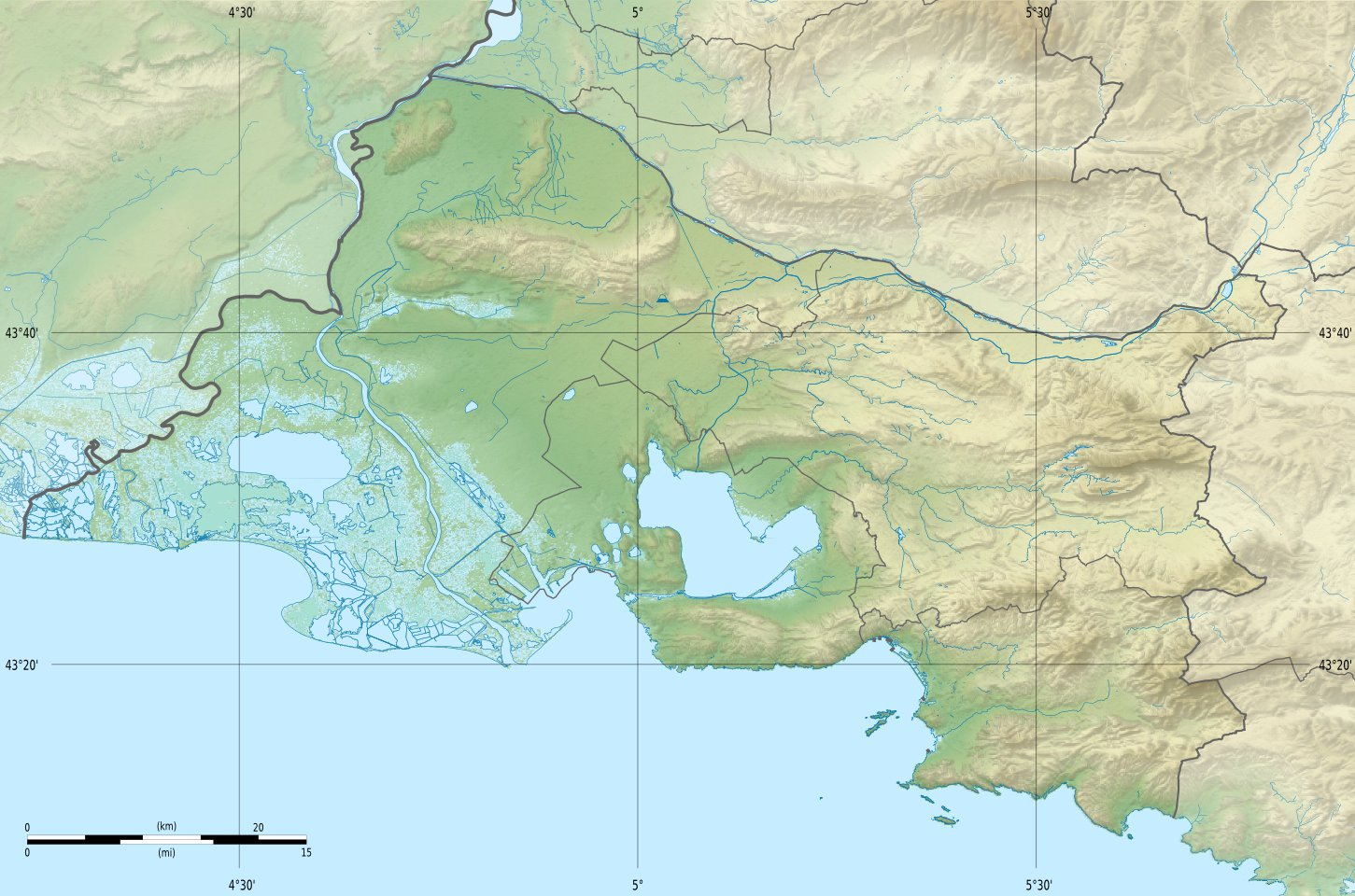 Blank physical map of the department of Bouches-du-Rhône, France, for geo-location purpose, with distinct boundaries for regions, departments and arrondissements.